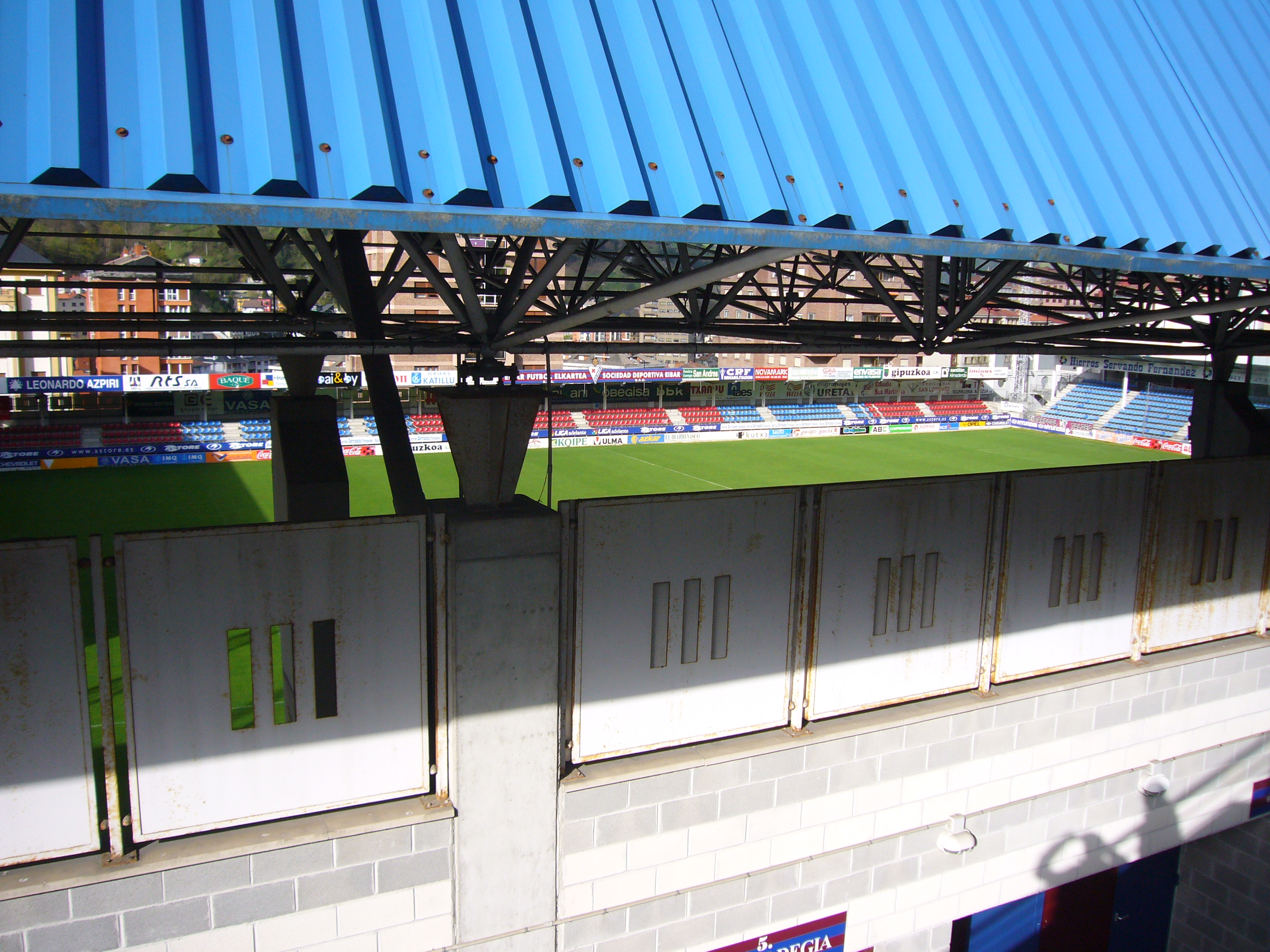 Partial view of two of the steps of Ipurua.